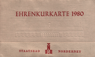 complimentary permission ticket for public health area island norderney (germany)